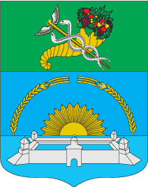 Coats of arms of Pervomajskyj raions